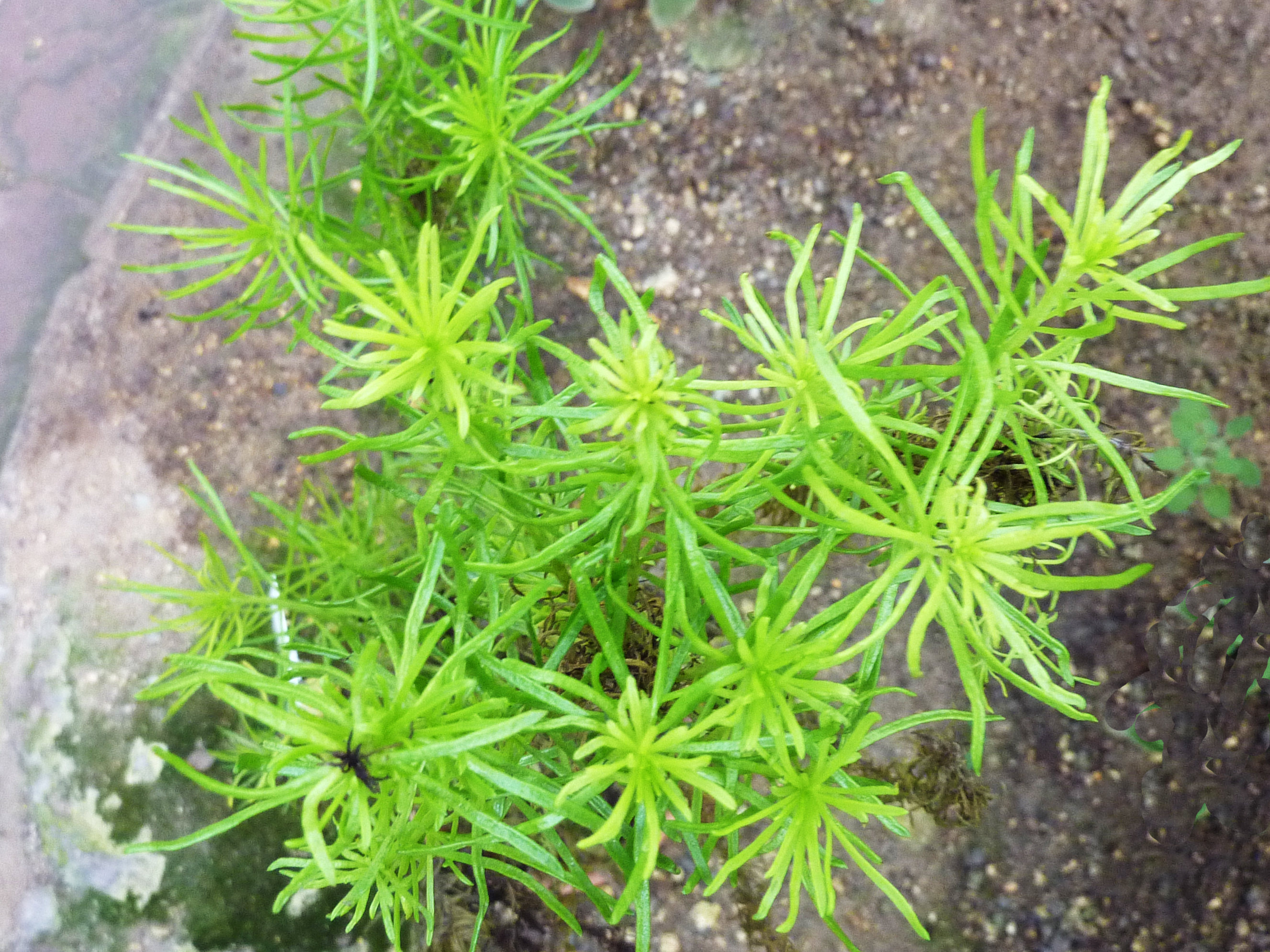 Schizogyne glaberrima in the Botanical Garden, Berlin